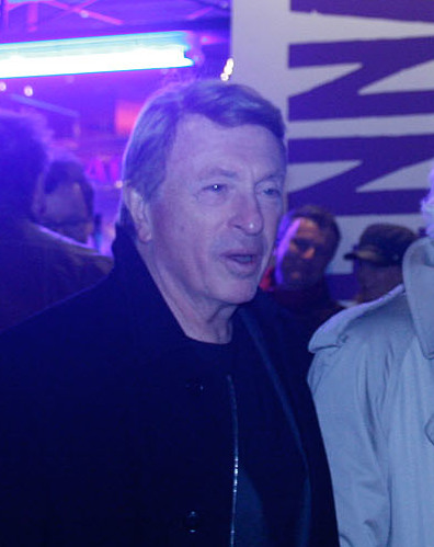 Larry Cohen and Merv Bloch at the Gartenbaukino in Vienna during the Vienna International Film Festival 2010.